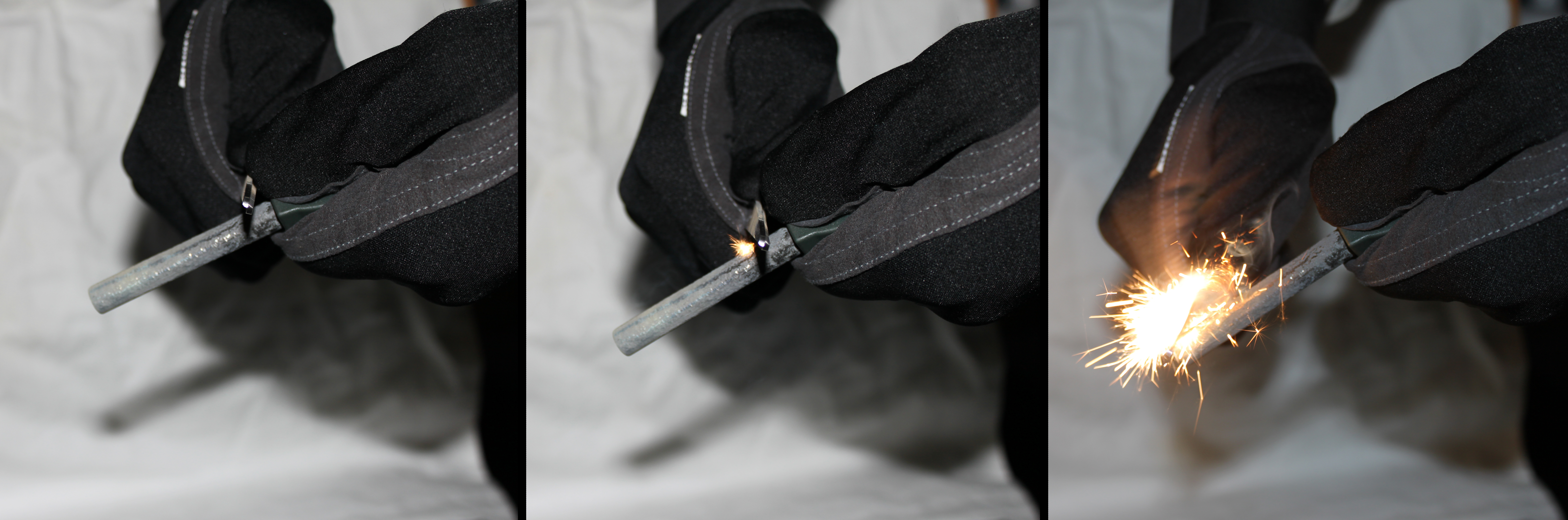 Swedish "firesteel": magnesium ignited by a pair of scissors.